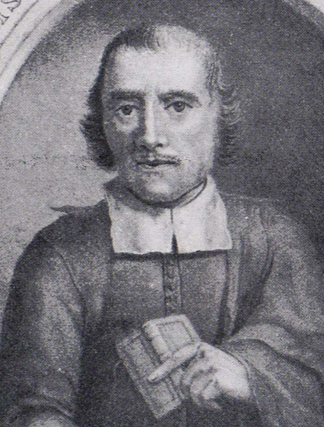 Engraving of Daniel Gravius, 17th century missionary to Formosa (Taiwan).